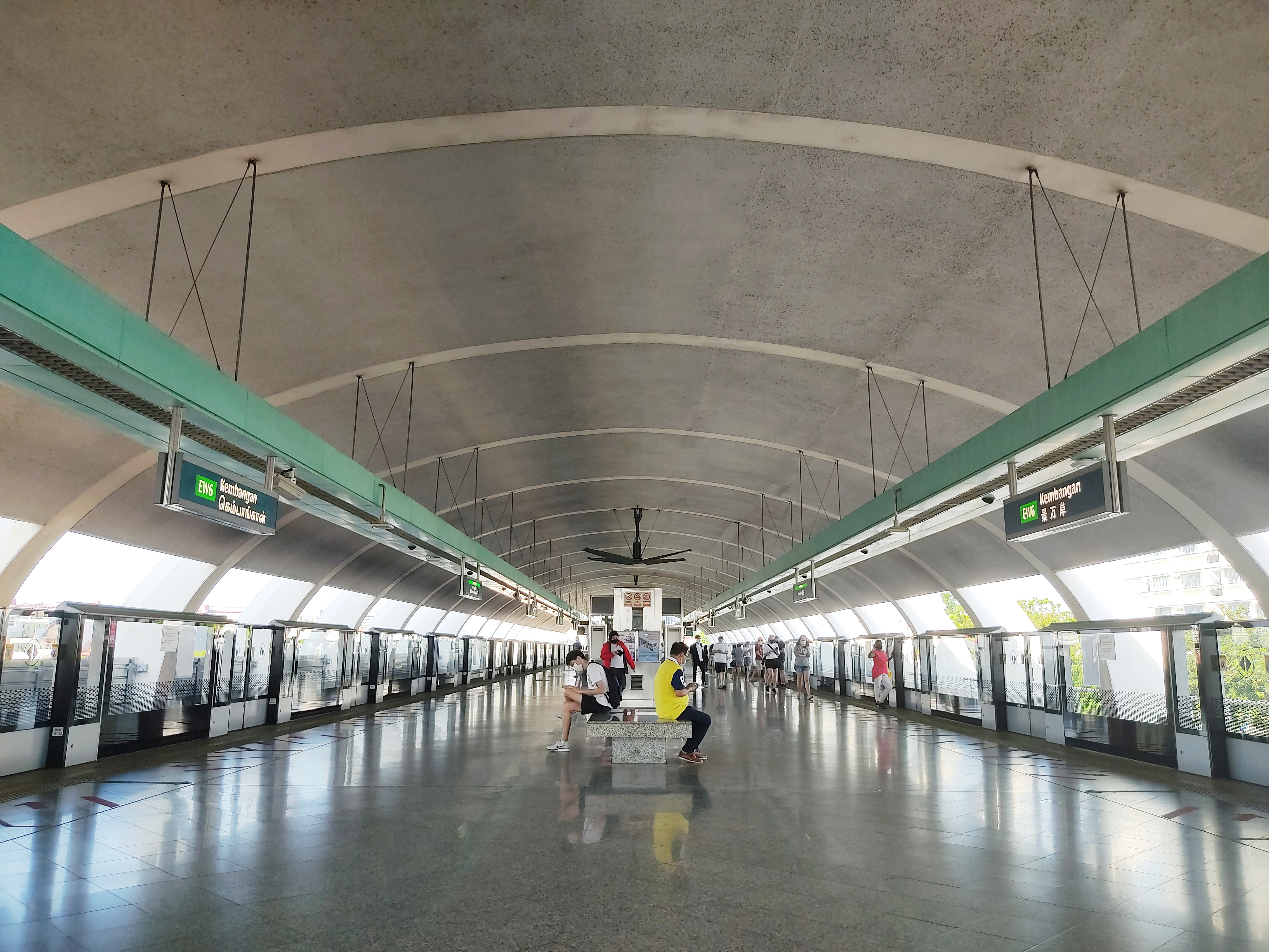 MRT Platforms of EW6 Kembangan